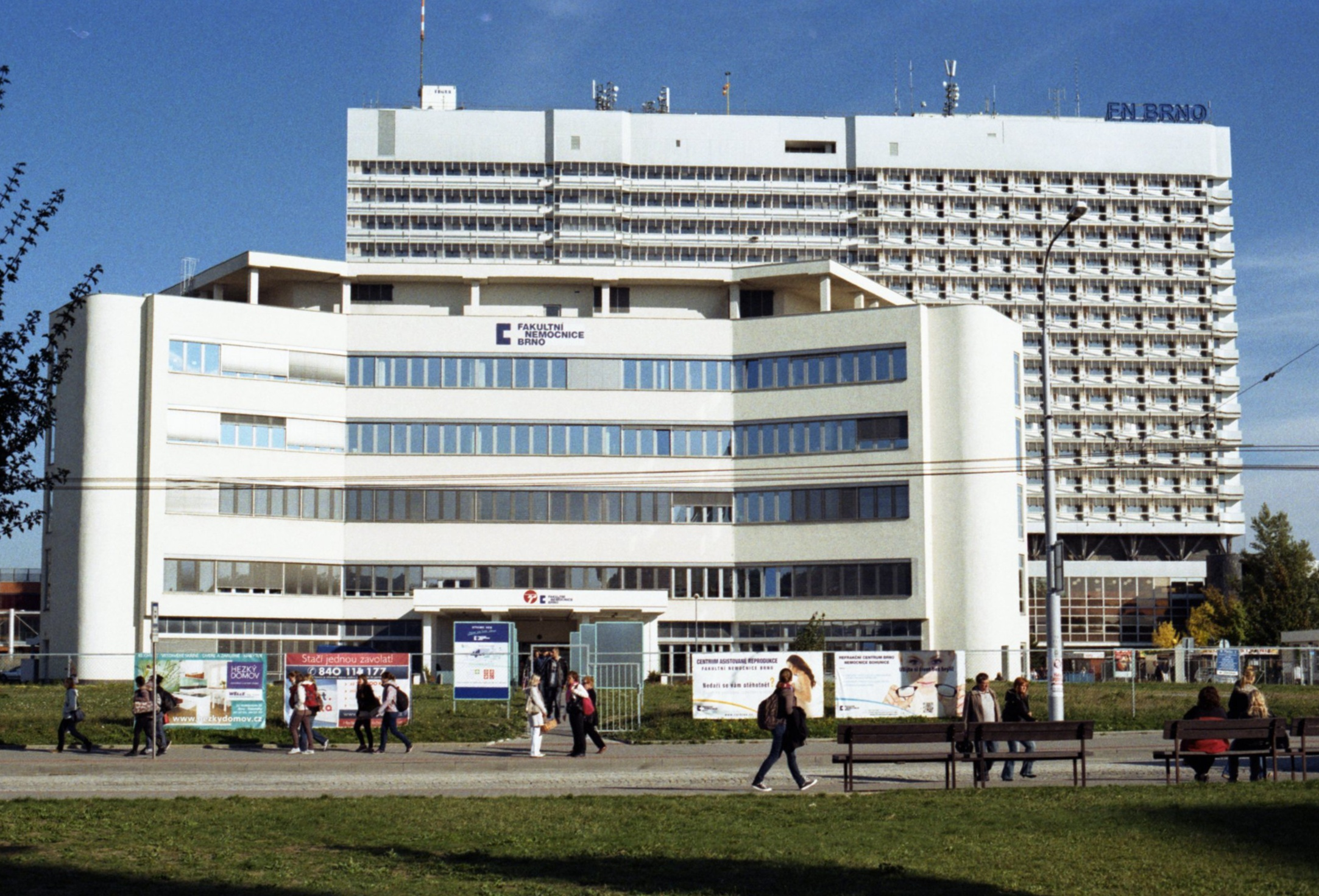 The largest hospital in Brno, Czech Republic.